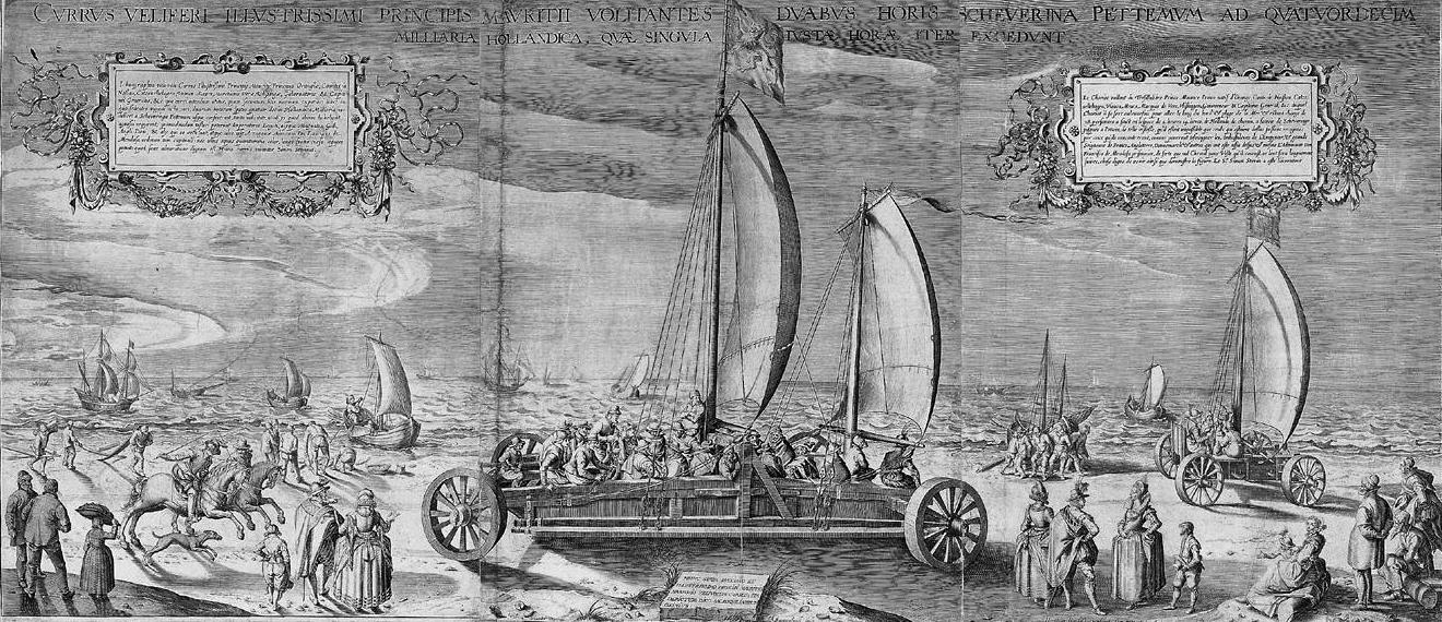 The Sailing Chariot. Engraving and woodcut. 540 × 1255 mm. Amsterdam, Rijksmuseum Amsterdam (inv.no. RP-P-FM-1157-A).